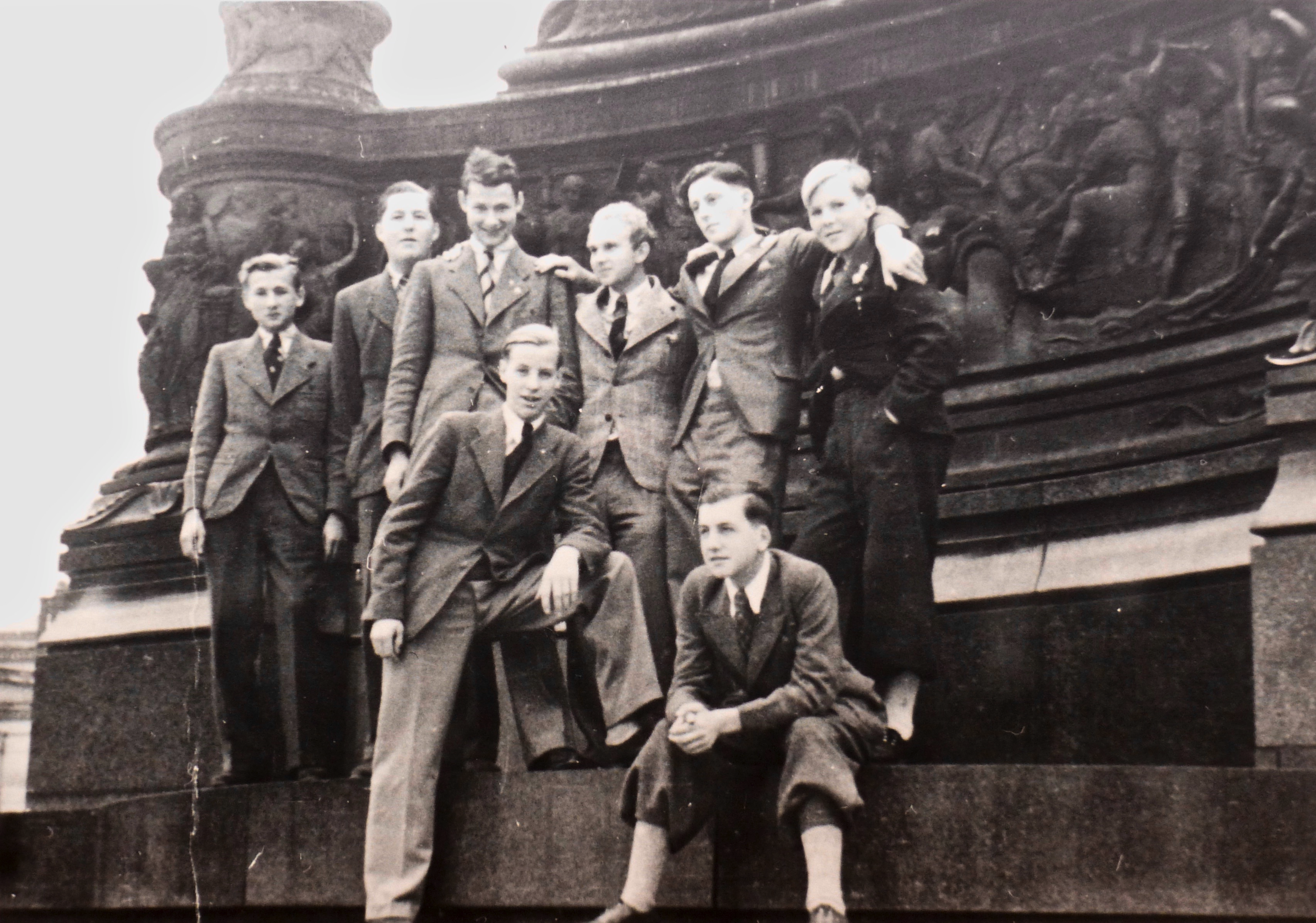 A group of pupils from Schulgemeinde from Wickersdorf near Saalfeld in the Thuringian Forest during a trip in front of a monument. In the foreground on the left: Arnold Ernst Fanck (1919–1994), son of movie pioneer and director Arnold Fanck (1889–1974).